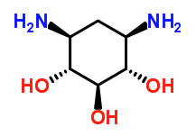 2-deoxystreptamine, 2D representation, oxygens in red and nitrogens in blue (both with attached hydrogens)